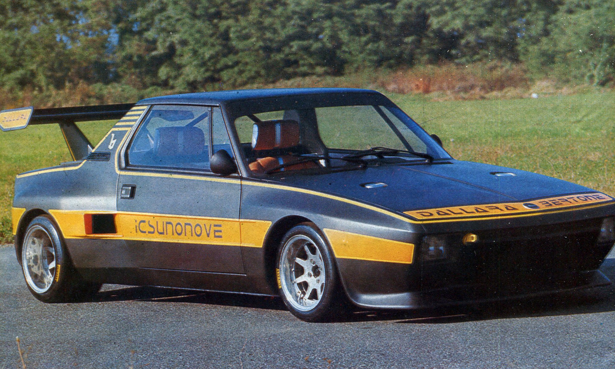 A Dallara Icsunonove (the Italian pronunciation of "X1/9"), a modified Fiat X1/9 by Dallara to enter the World Championship for Makes in the Group 5 Special Production class, here in a 1975 pre-series model.